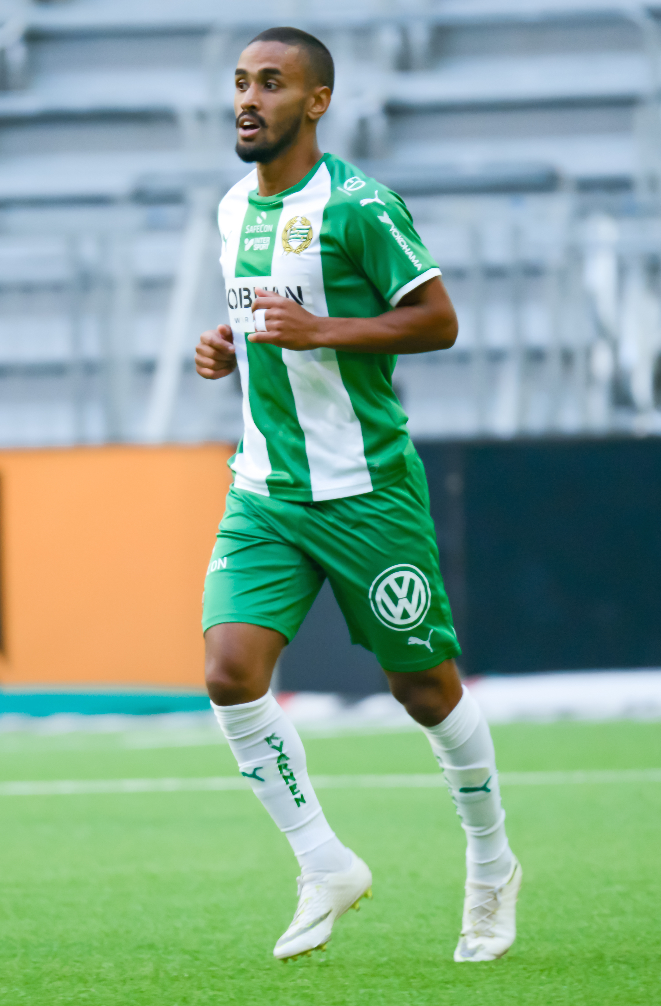 Hammarby-Örebro 2018-08-20, Junes Barny